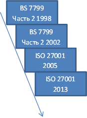 Появление ИСО 27001